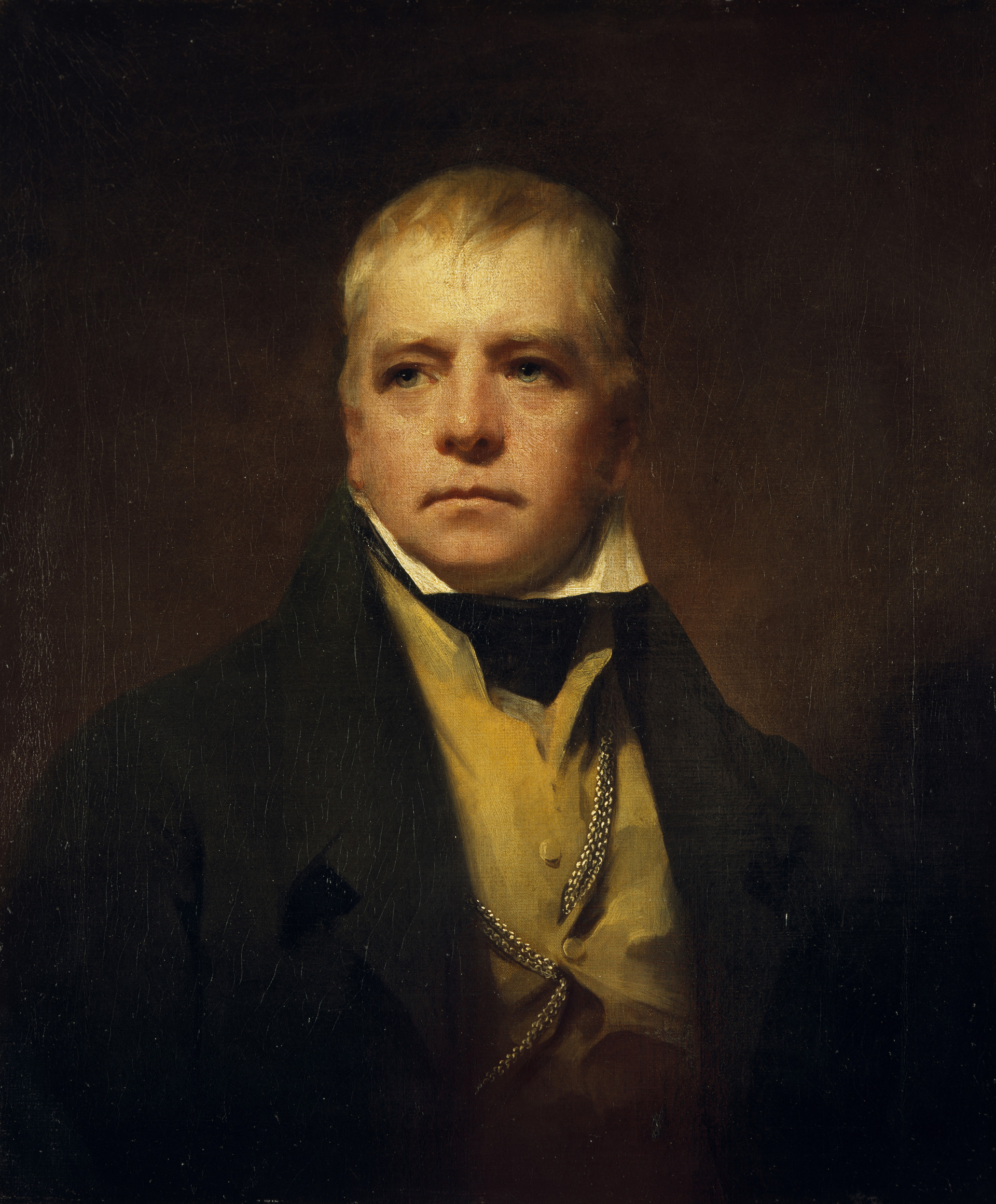 Portrait of Walter Scott (1771 - 1832), novelist and poet.